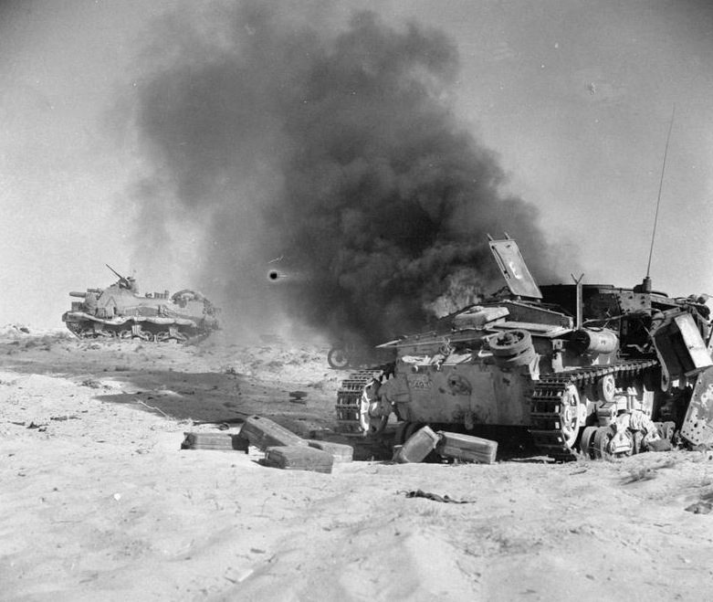 Desert combat